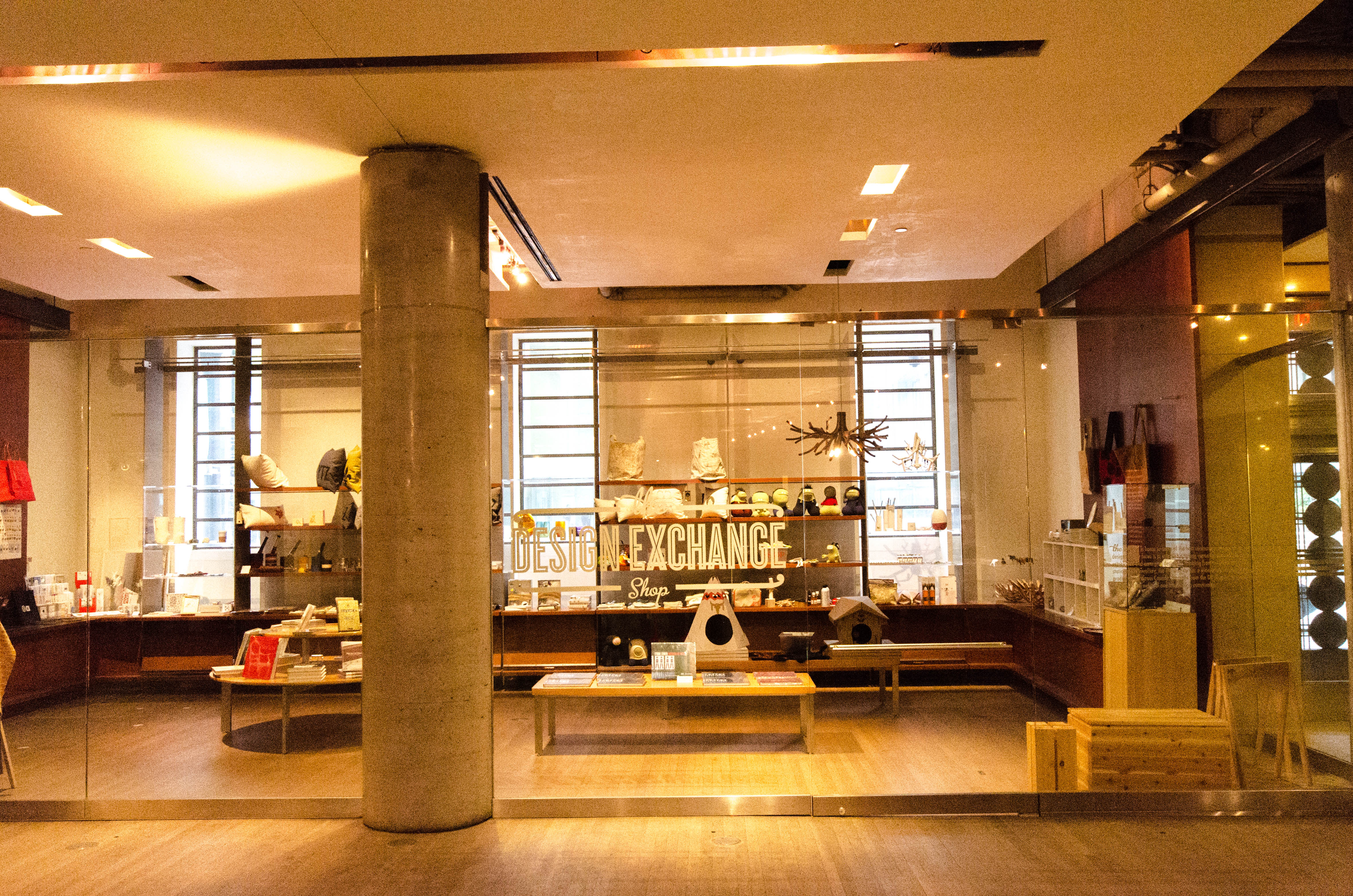 The gift shop at the Design Exchange. Toronto, Ontario, Canada.